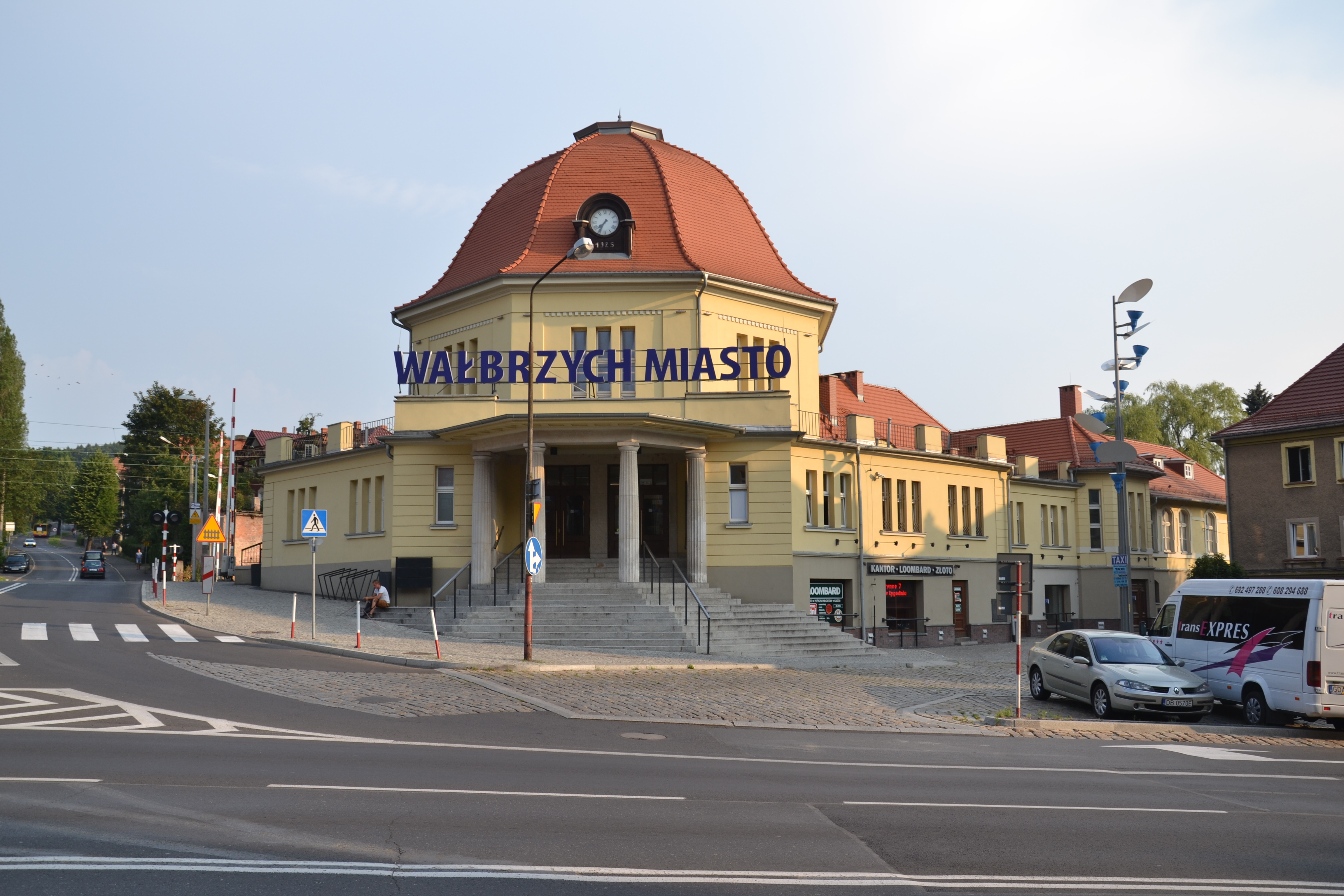 Widok stacji Wałbrzych Miasto od strony miasta This photo was taken during Railway Wikiexpedition 2015 set up by Wikimedia Polska Association in cooperation with Fundacja Grupy PKP. You can see all photographs in category Wikiekspedycja kolejowa 2015.